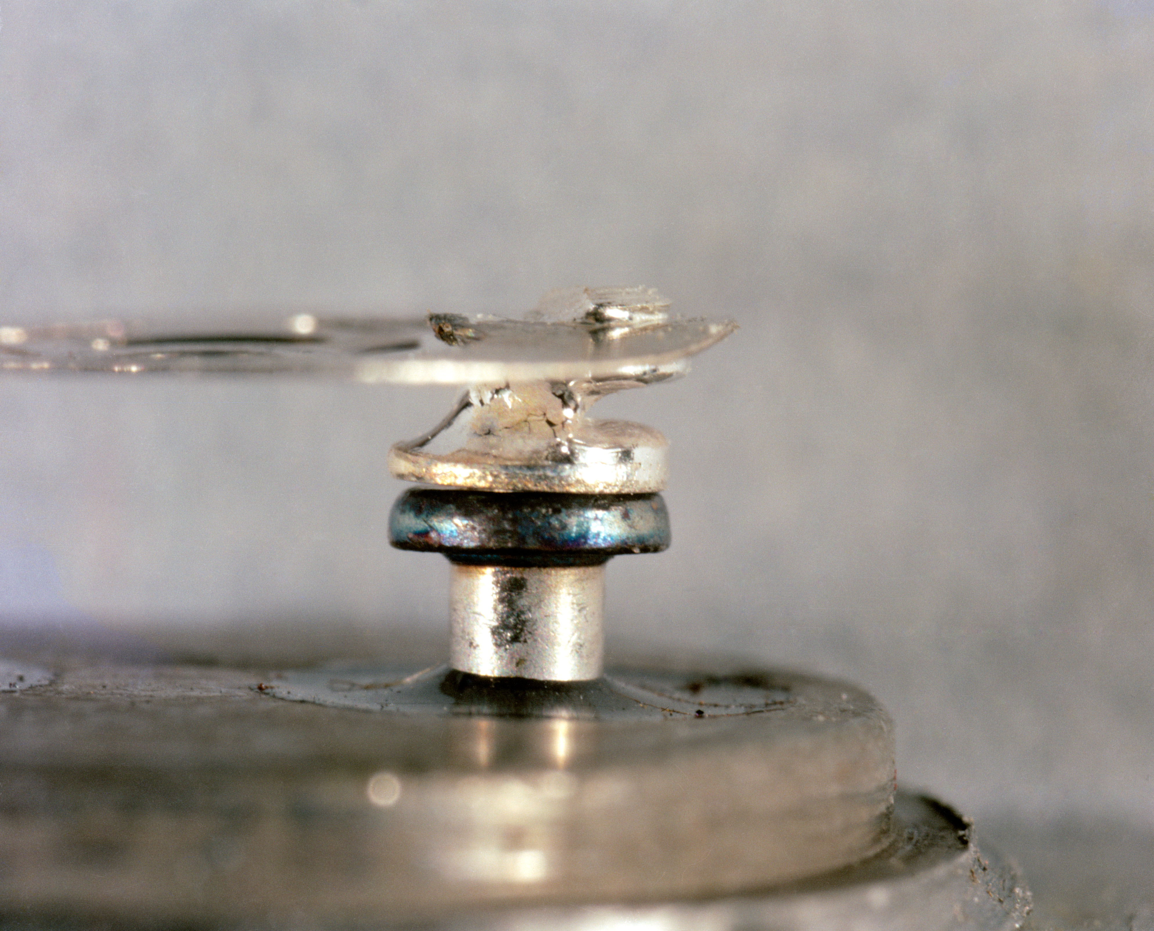 Fused thermal switch from Apollo Service Module (SM) oxygen tank after test at the NASA Manned Spacecraft Center (MSC) simulating Apollo 13 de-tanking procedures.